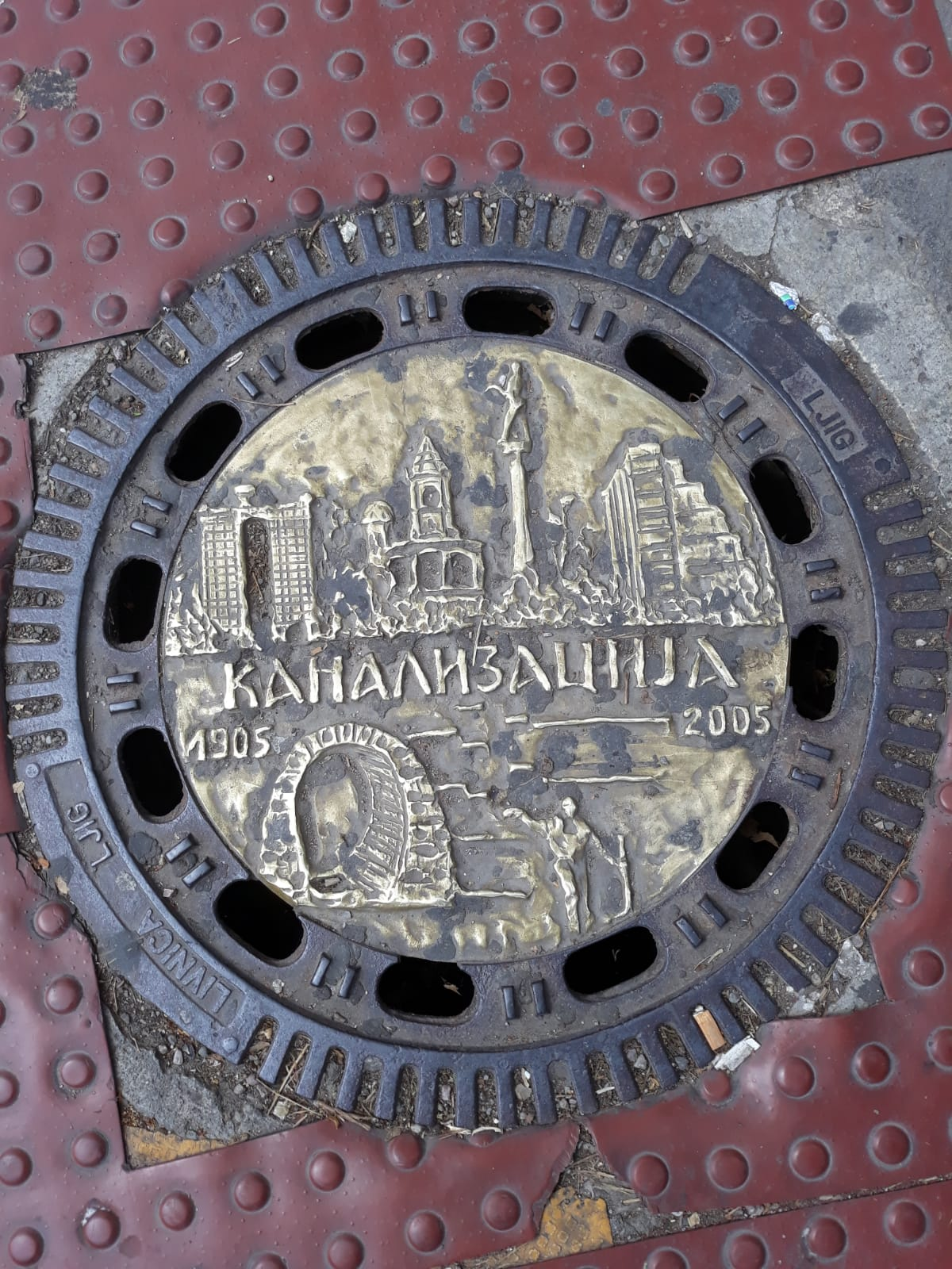 A menhole cover in Belgrad, Serbia